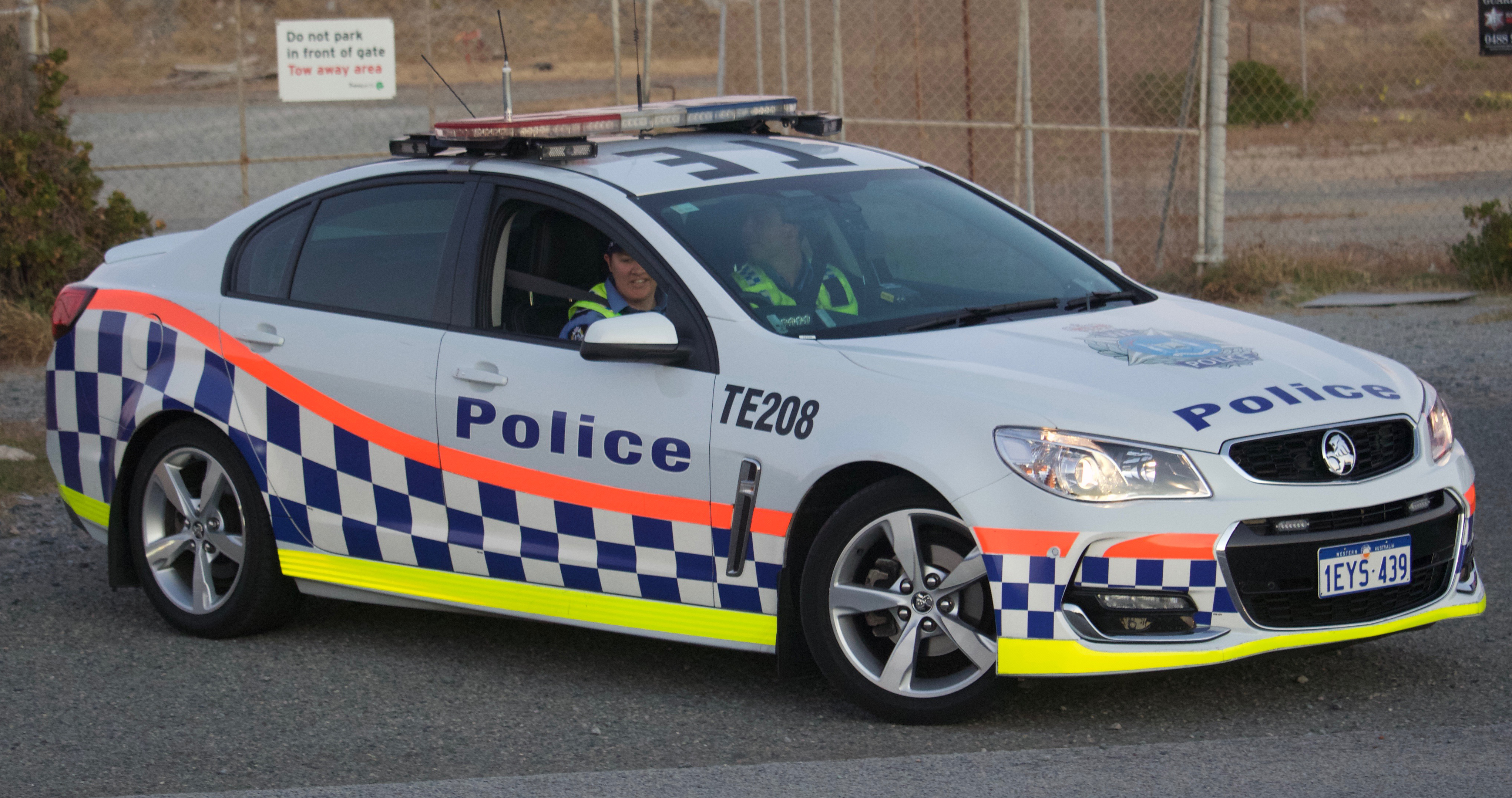 2016 Holden Commodore (VF II) SV6 sedan, Western Australia Police. Photographed in Cottesloe, Western Australia, Australia.